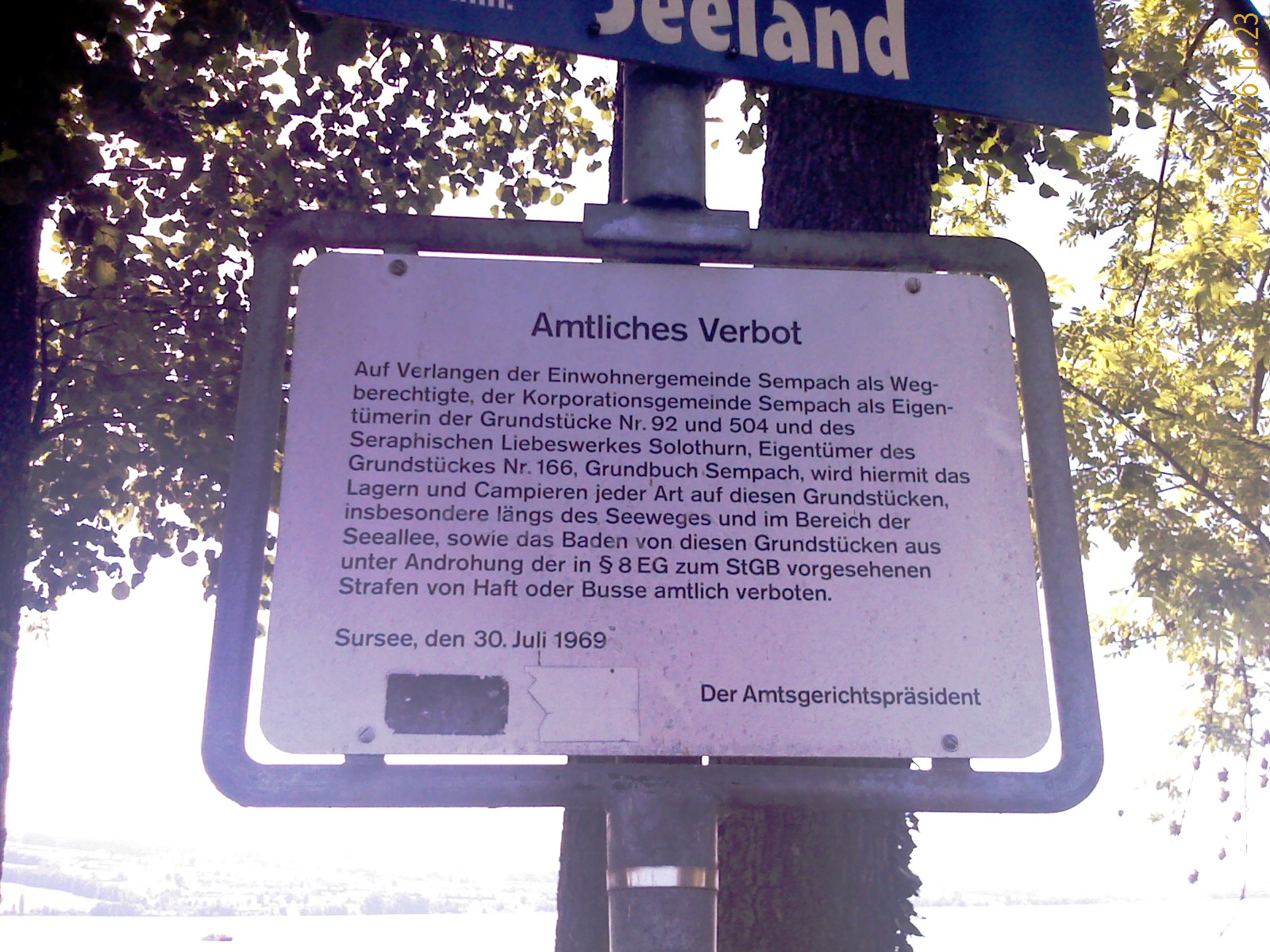 The board of the Lake Sempach would be wonderfull if not this interdiction of the 1860ies ..., Sempach, canton of Luzern, SwitzerlandEsperanto: La borod de Lago de Sempach de Sempach estus mirinda, se ne tiu malpermeso el la 1960-aj jaroj ..., vidita de Sempach, Kantono Lucerno, Svislando